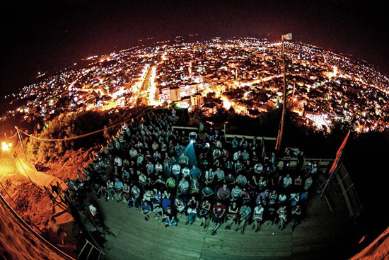 DokuFest